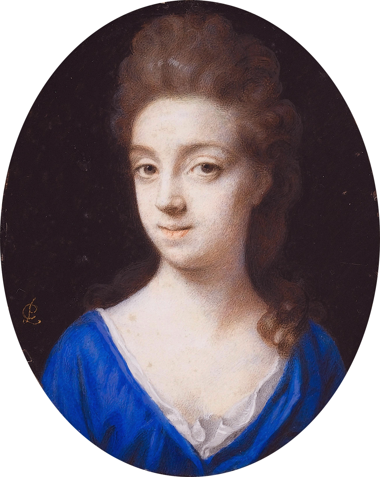 Carey, daughter of Sir Alexander Fraser Bt., wife of Charles Mordaunt, 3rd Earl of Peterborough on vellum oval, 8,7 cm high signed l.c.: PC